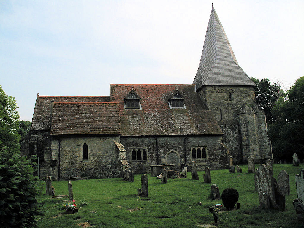 View of All Saints Church, Beckley, East Sussex